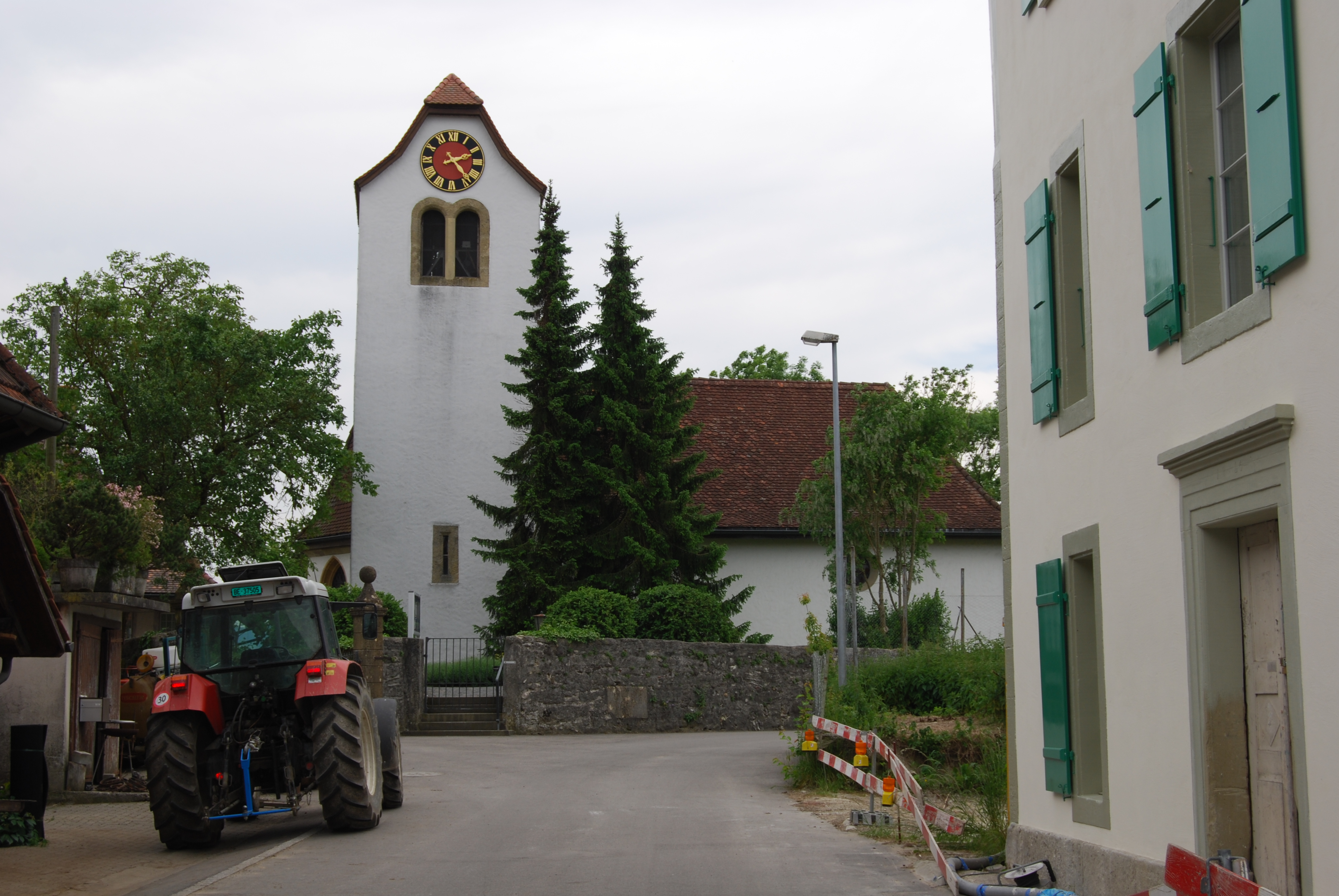 Protestant church of Walperswil, canton of Bern, Switzerland